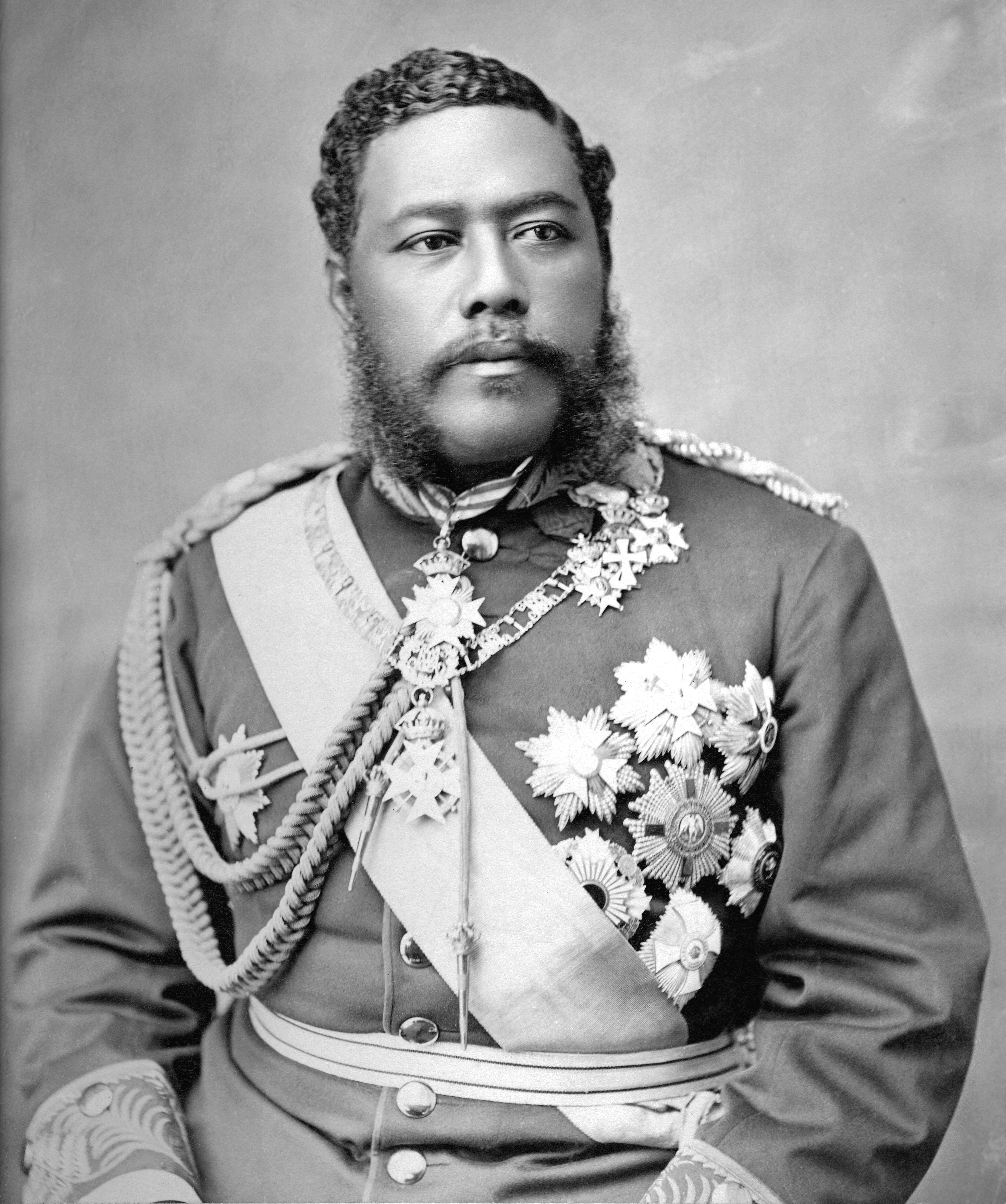 Hawai'i State Archives image of King David Kalakaua.